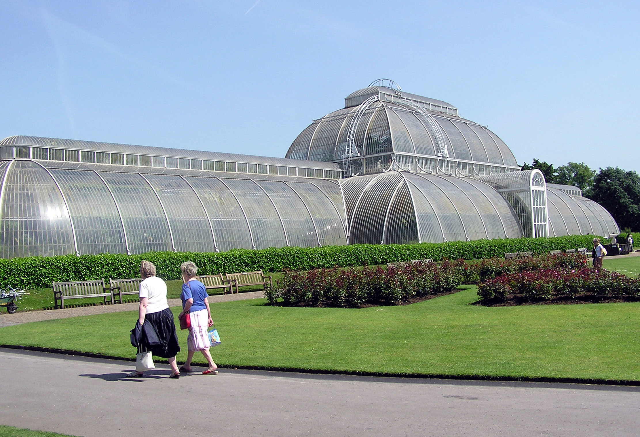 The Palm House (built 1844-1848) at Kew Gardens, London, England. A tropical rainforest habitat is created in this massive greenhouse. Taken by Adrian Pingstone in June 2005 and released to the public domain.